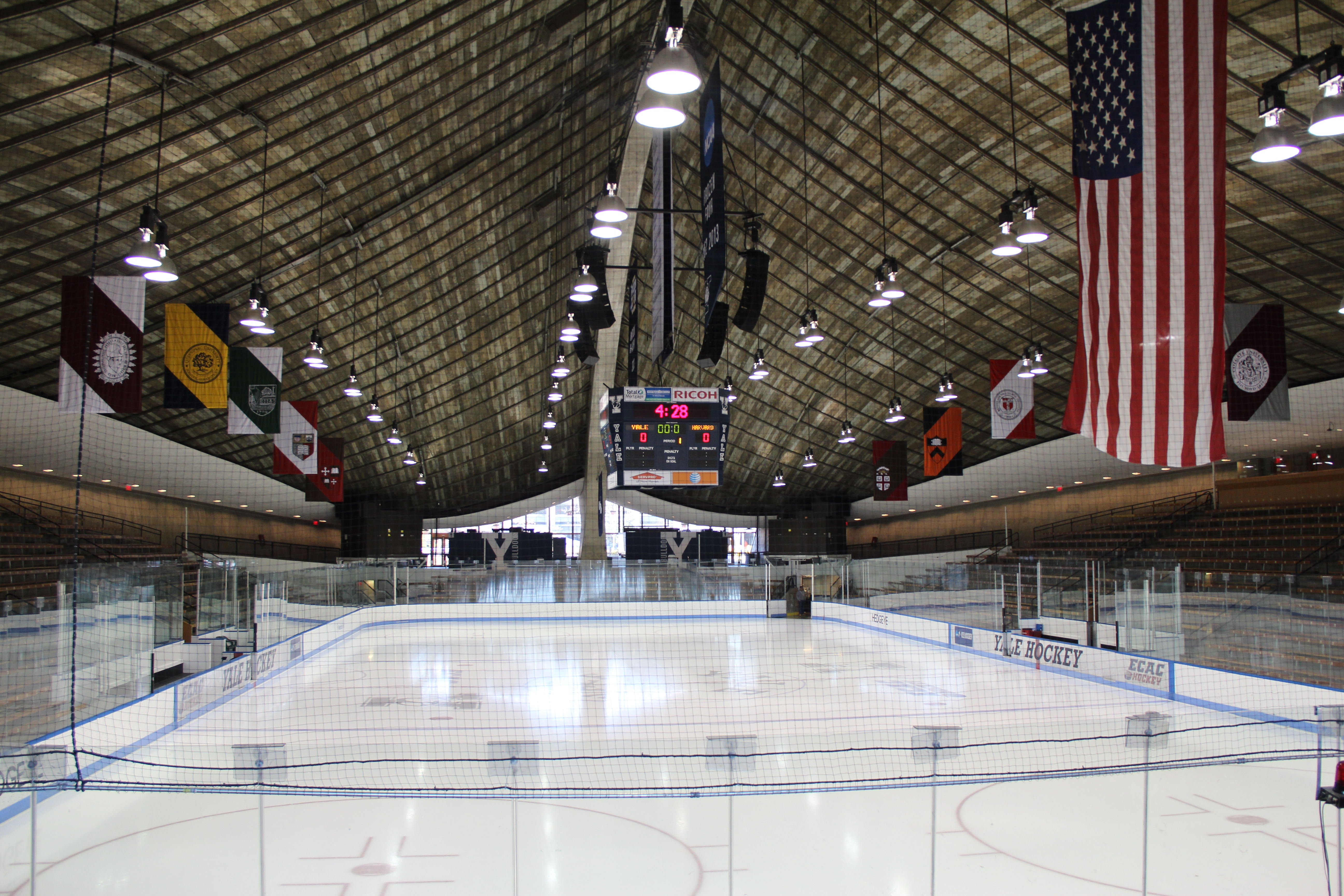 Interior of Ingalls Rink before a Yale-Harvard hockey game, designed by Eero Saarinen, Yale University, New Haven, CT